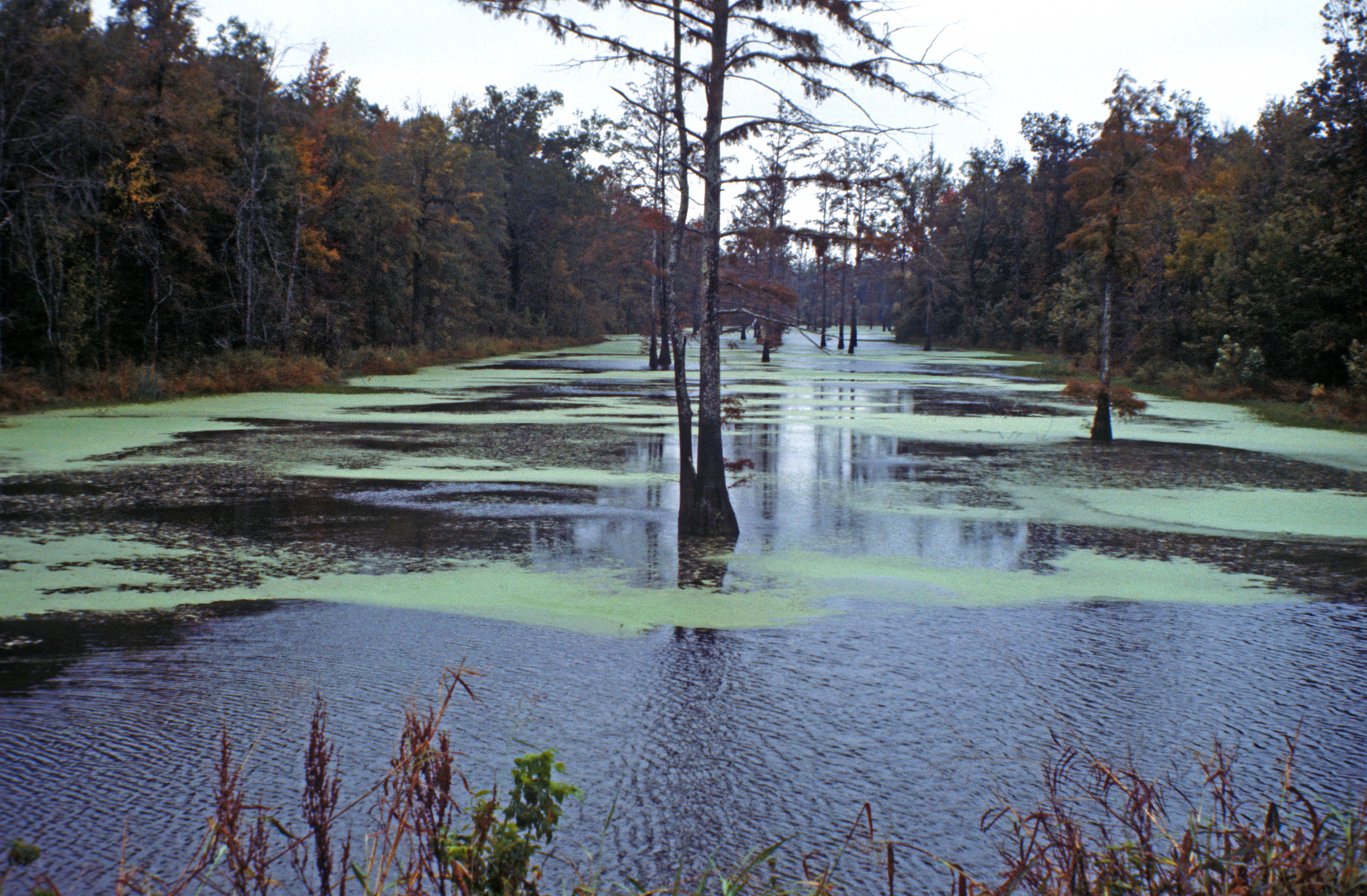 ARKANSAS POST IF LOCATED ON A PENINSULA FORMED BY A U-SHAPED CONFIGURATION OF THE ARKANSAS RIVER.